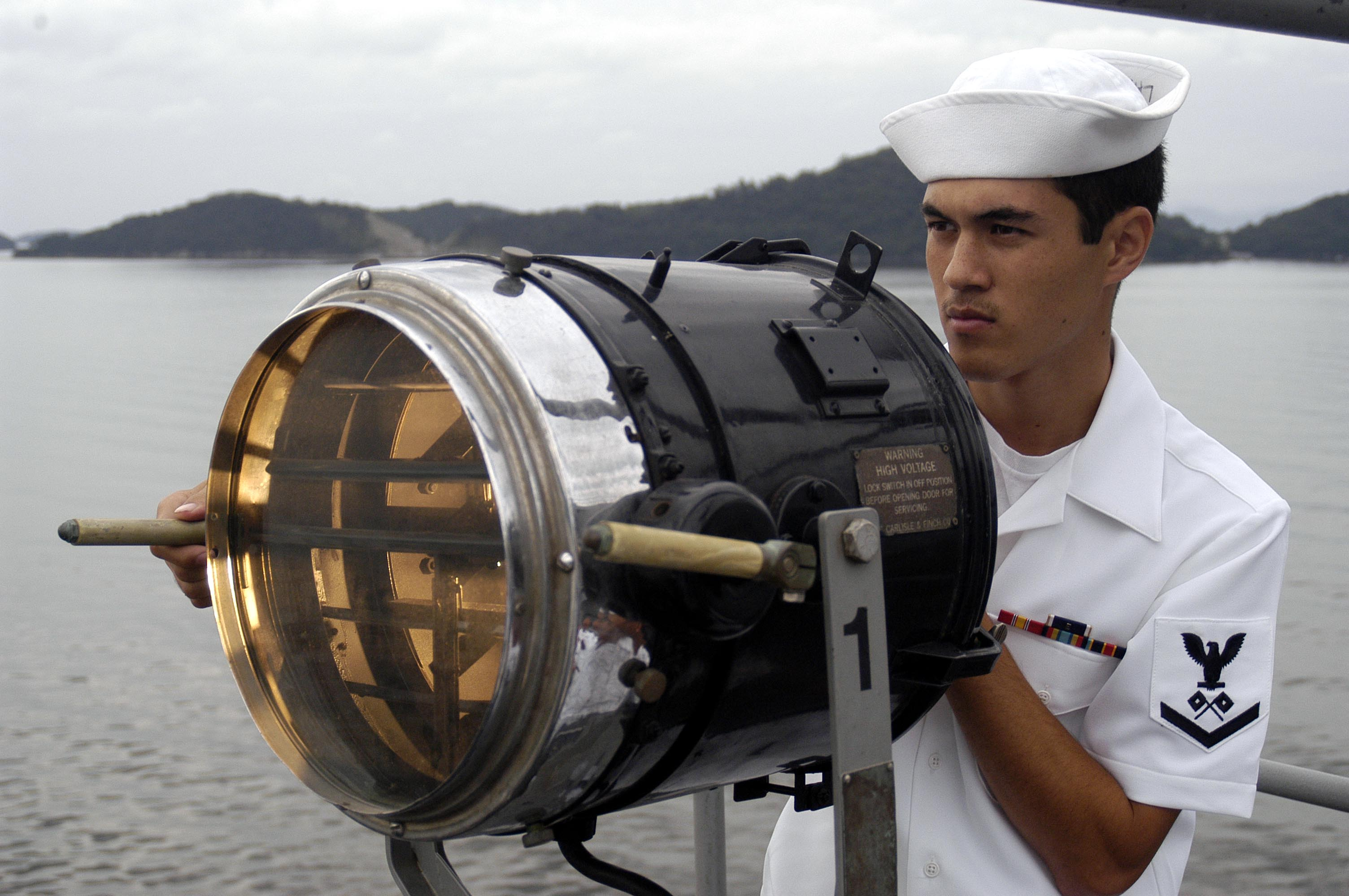 Chinhae, Korea (Aug. 16, 2003) -- Signalman 3rd Class Jonathon Lheureux, from Panama City, Fla., signals another ship from the bridge wing aboard the 7th Fleet command ship, USS Blue Ridge (LCC 19). U.S. Navy photo. (RELEASED)